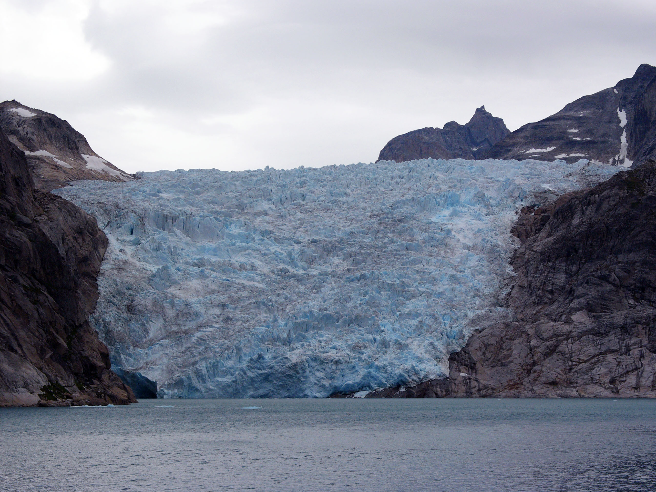 Glacier in Prinz Christian Sund, south Greenland